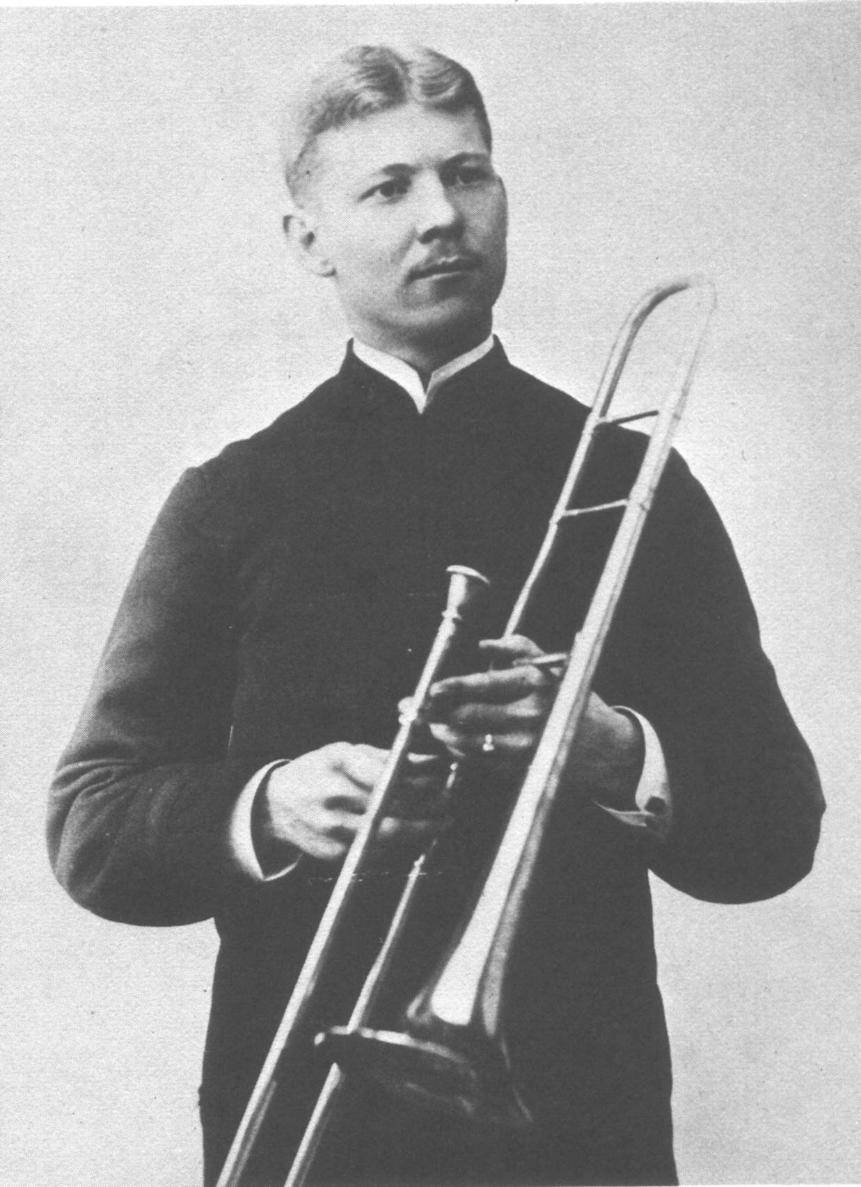 Arthur Willard Pryor (September 22, 1870 – June 18, 1942) was a trombone virtuoso, bandleader, and soloist with the Sousa Band.